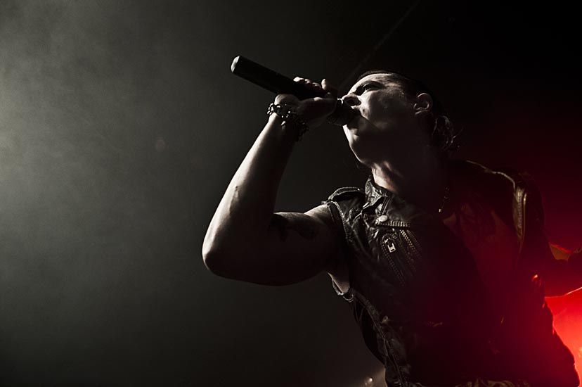 Satyr (Sigurd Wongraven) of Satyricon live at Hole In The Sky 2011